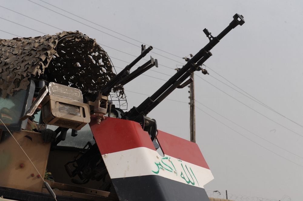 An Iraqi soldier of the 9th Iraqi Army Division (Mechanized) pulls security from his turret outside of an election site in Solmon Pak, Iraq, Jan. 30, 2009.